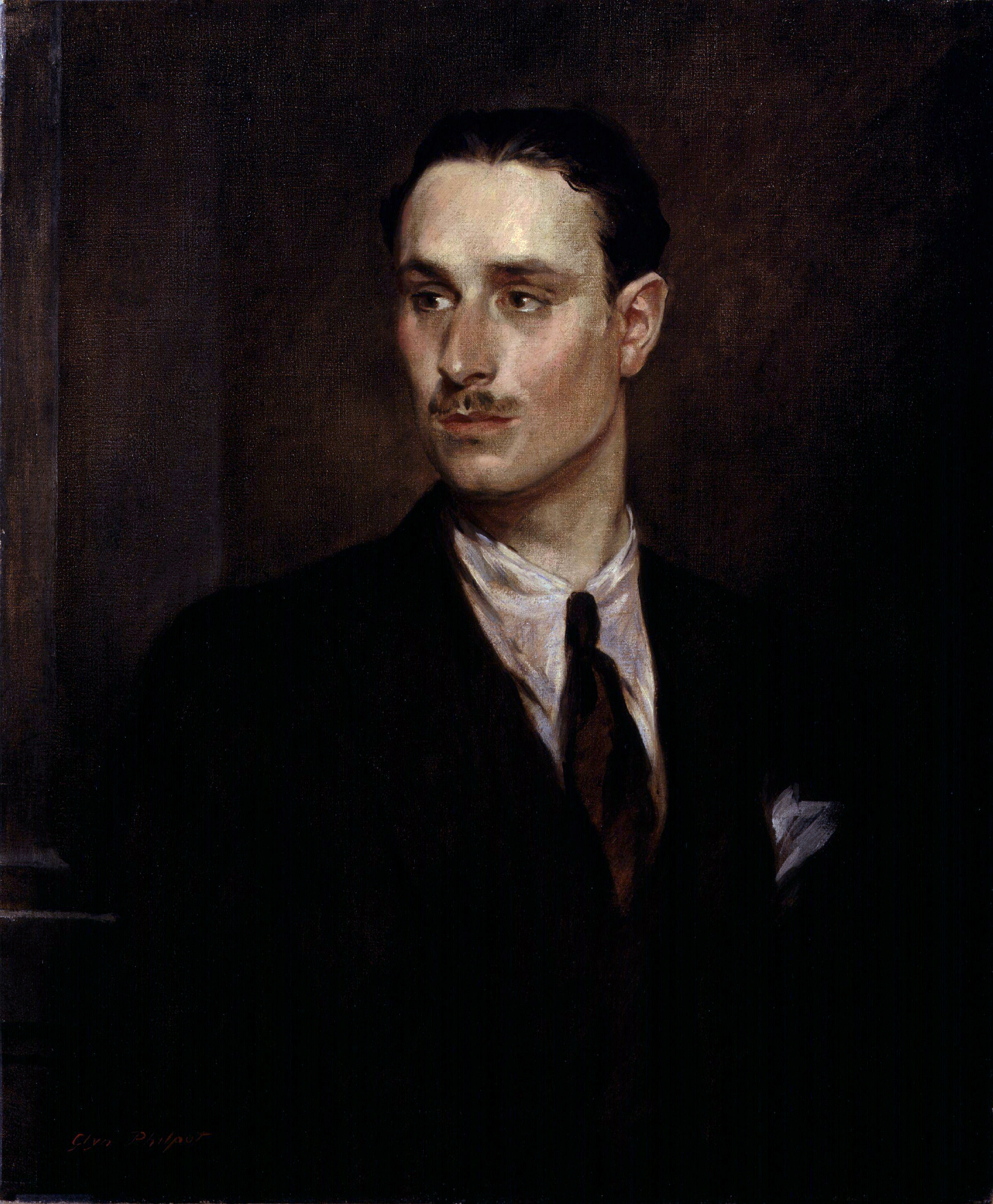 Depicted person: Oswald MosleySir Oswald Mosley, 6th Baronet (16 November 1896 – 3 December 1980) was an English politician, known principally as the founder of the British Union of Fascists.